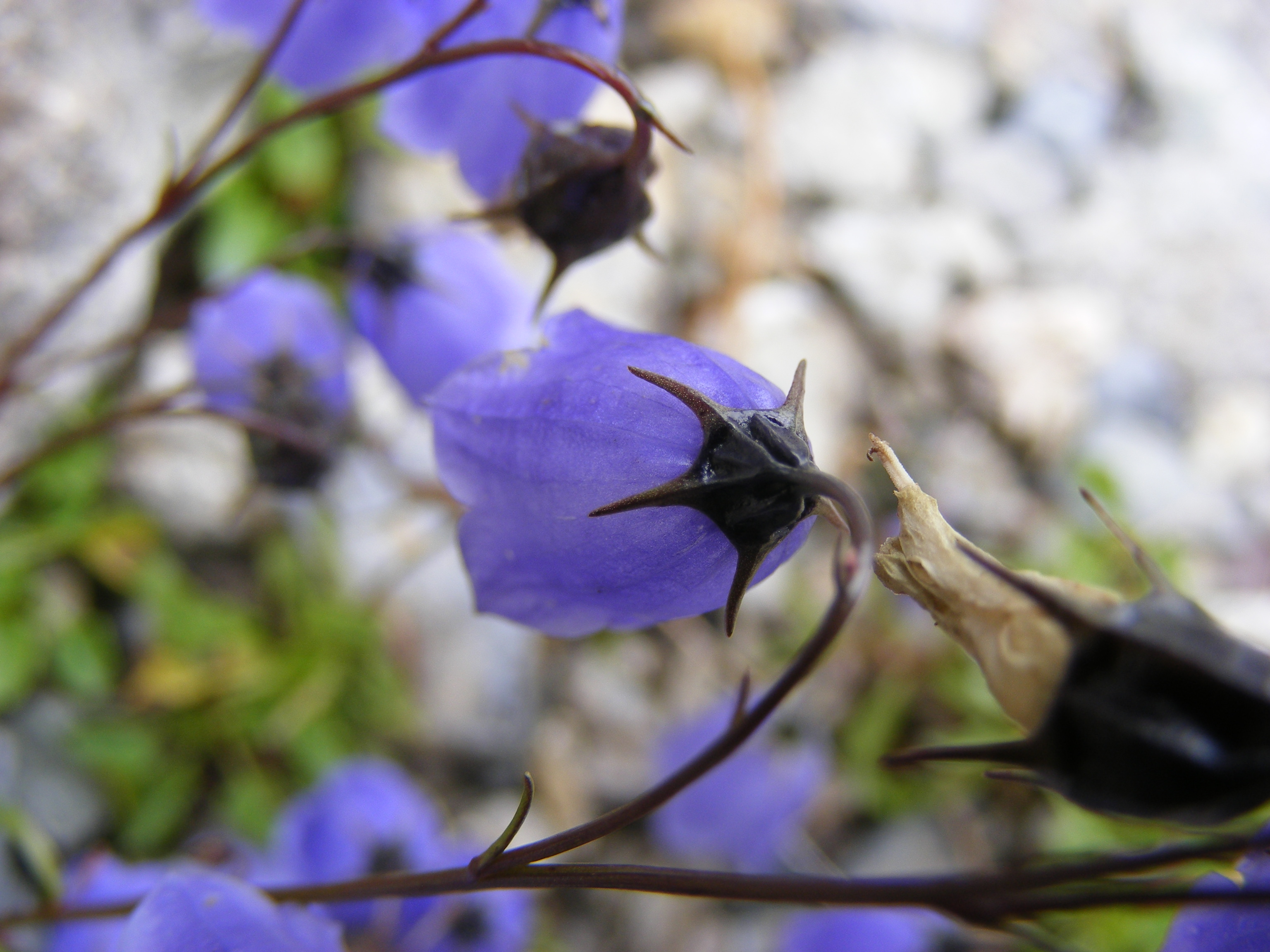 This photo shows Campanula cochleariifolia back of flower